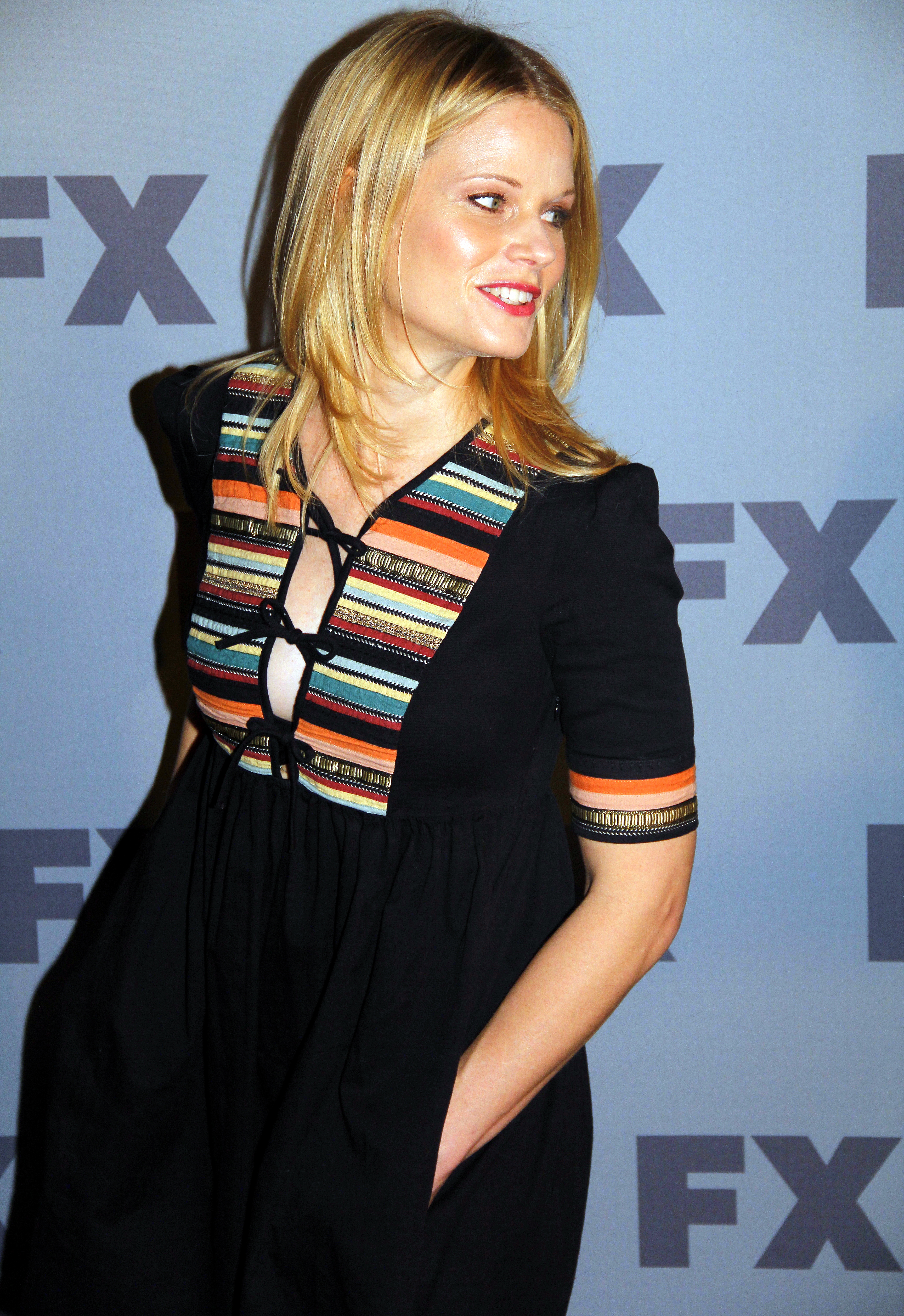 Joelle Carter at the 2012 FX Ad Sales Upfront.